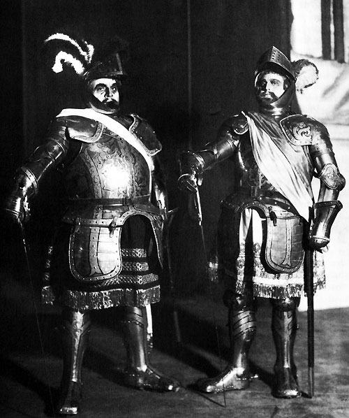 Emile Stiebel as Kristian II and David Stockman as Gustav Eriksson in Johann Gottlieb Naumann's 1786 opera Gustaf Wasa